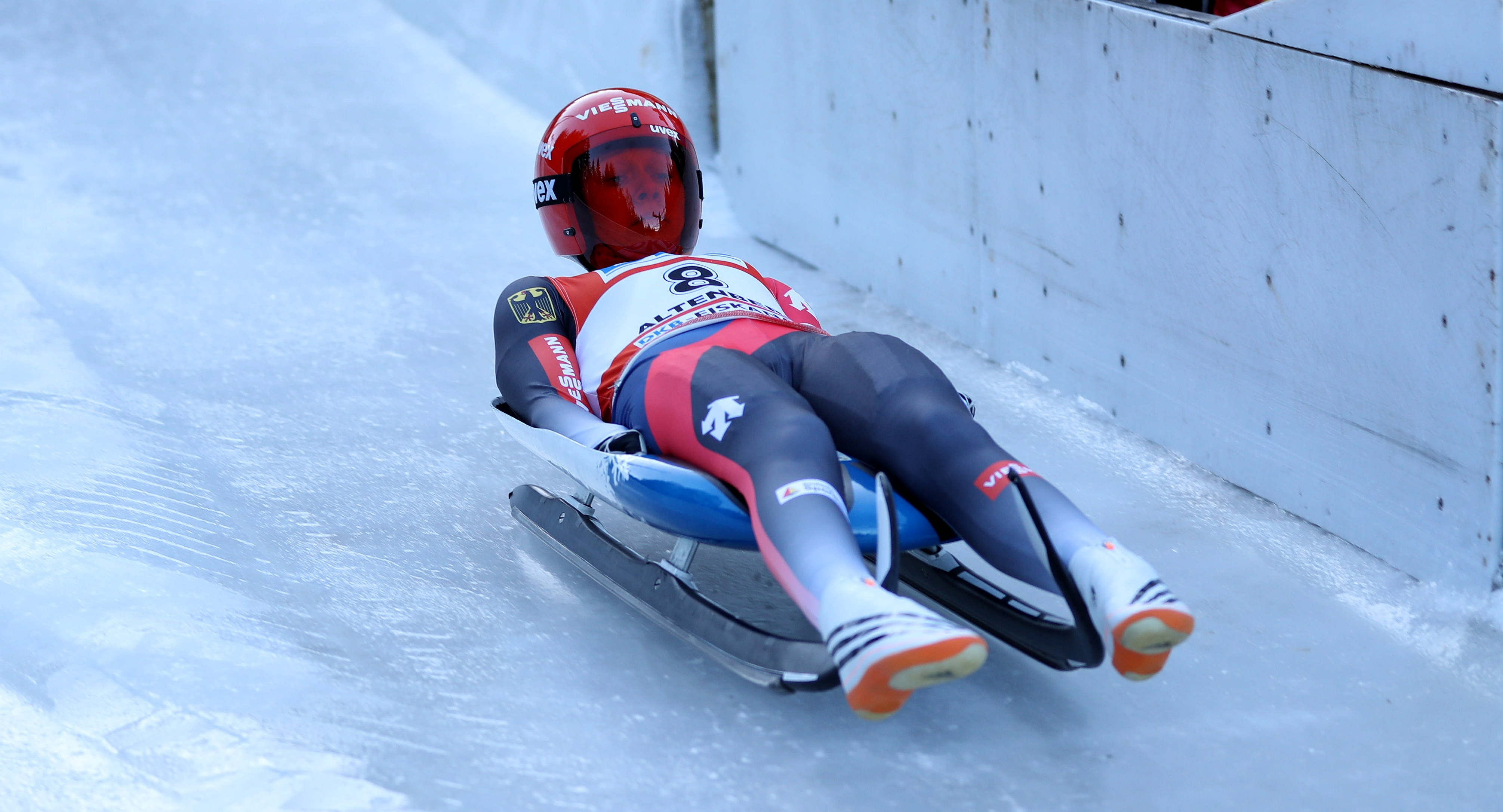 33rd Junior World Championship Luge, Altenberg 2018: Cheyenne Rosenthal